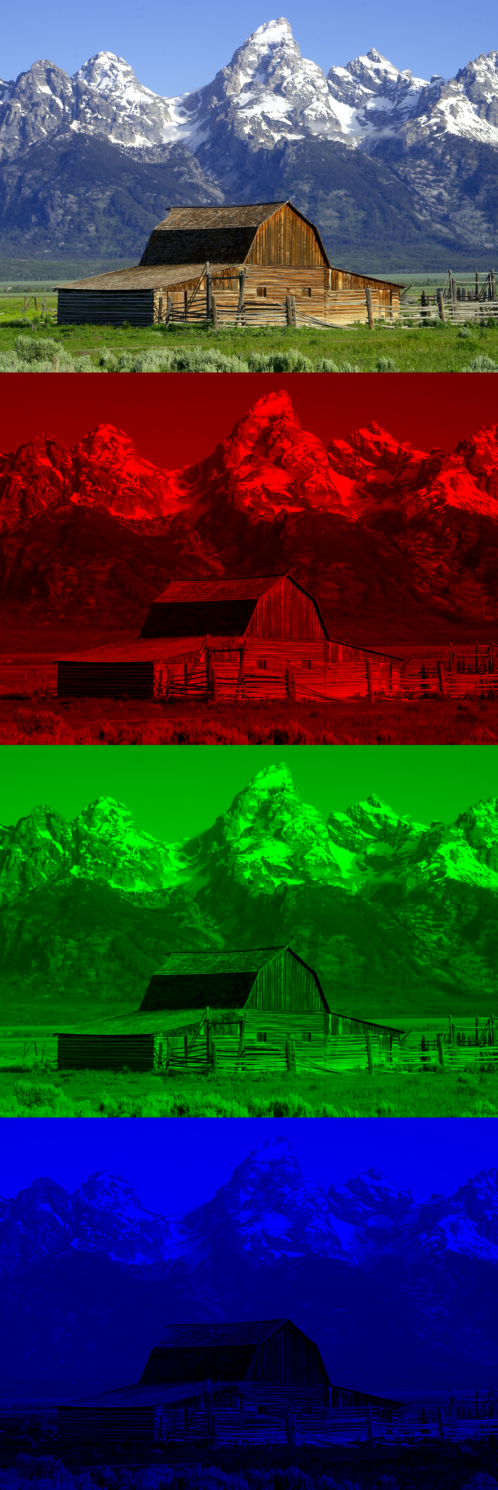 This takes an image (Image:Barns grand tetons.jpg) and displays the red, green and blue elements extracted from it. Note that the white snow is composed of strong red, green and blue; the brown barn is composed of strong red and green with little blue; the dark green grass is composed of strong green with little red or blue; and the light blue sky is composed of strong blue and moderately strong red and green. Based on the (public domain) photo Image:Barns grand tetons.jpg. Code above and resulting output by Mike1024.